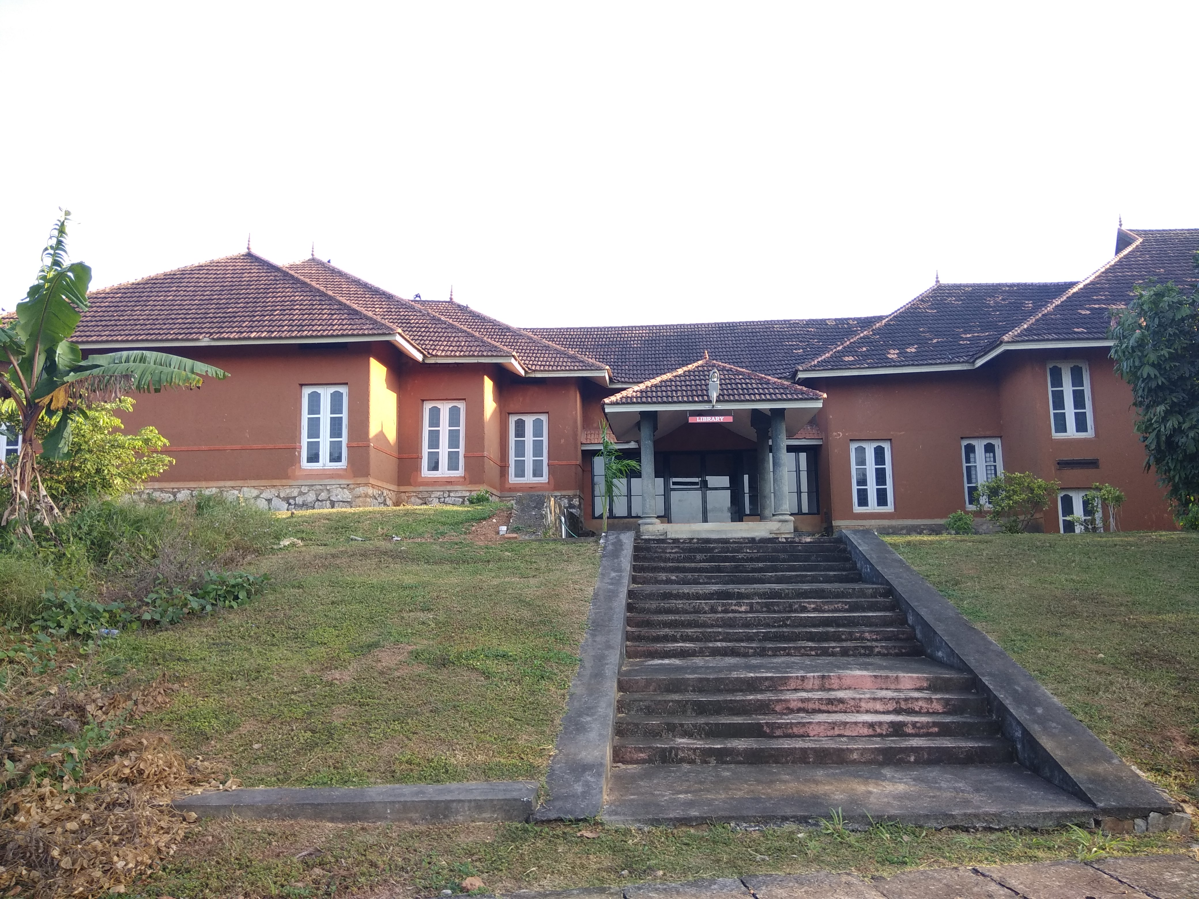 EMS Academy Library